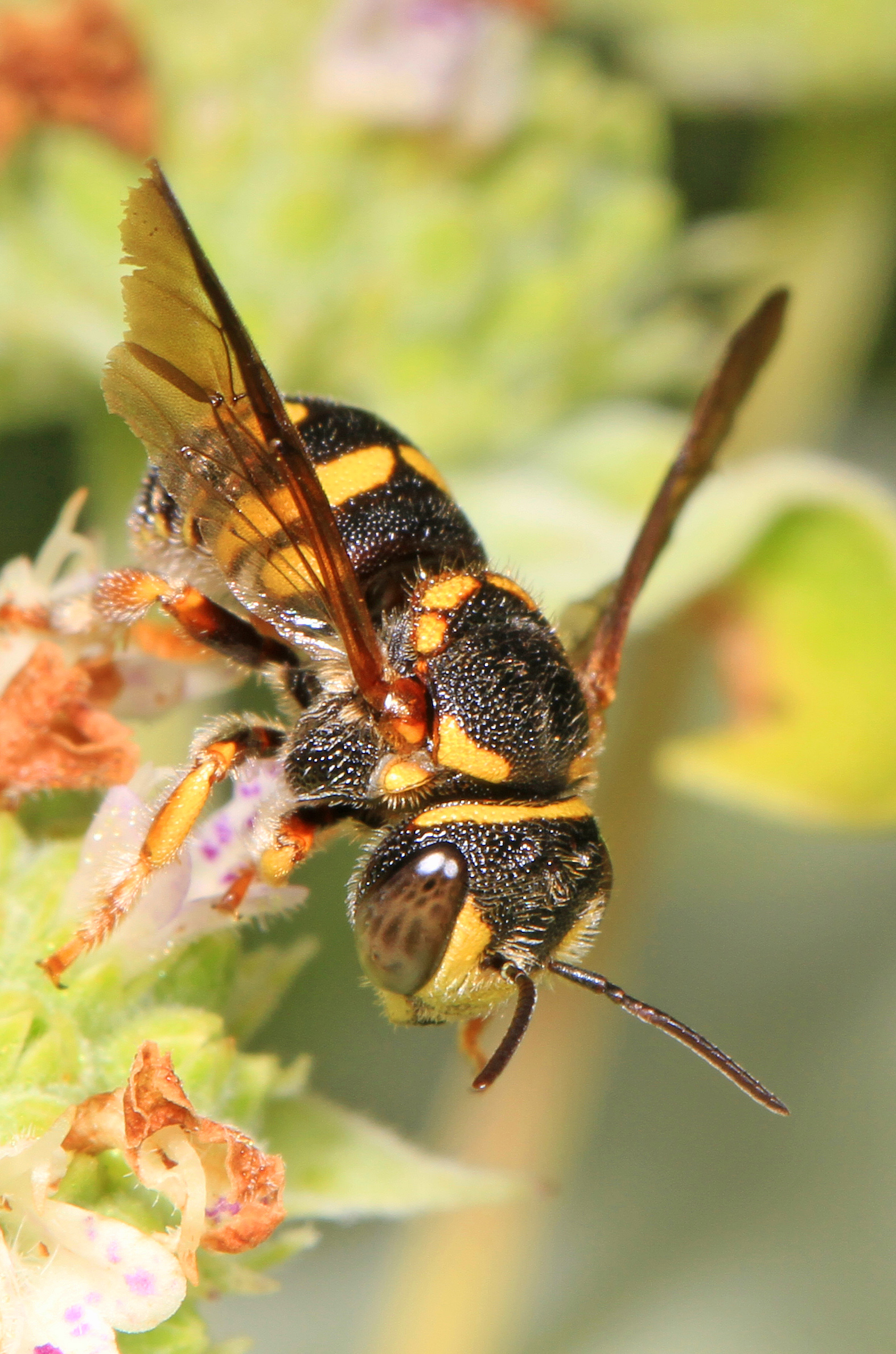 Leafcutter Bee - Anthidiellum notatum notatum, Meadowood Farm SRMA, Mason Neck, Virginia